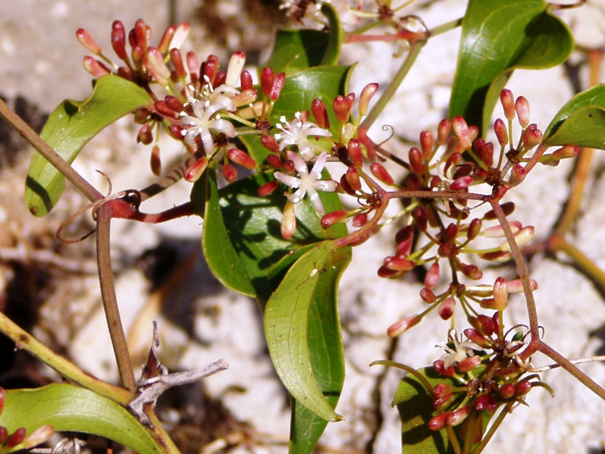 Common Smilax